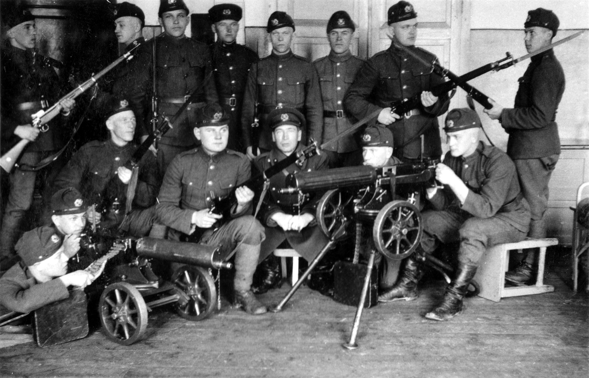 Conscripts of the Armored Train Regiment posing with weapons in 1938 or 1939.